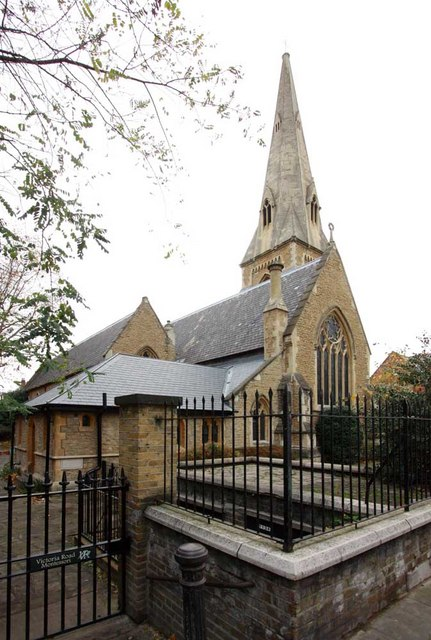 Christ Church, Eldon Road, W8